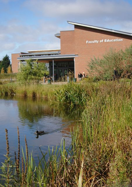 Her Royal Highness Princess Alexandra opened the £9m Faculty of Education building in 2004. The facilities include 24 teaching rooms, a 300-seat lecture theatre ICT equipment and a model school classroom.